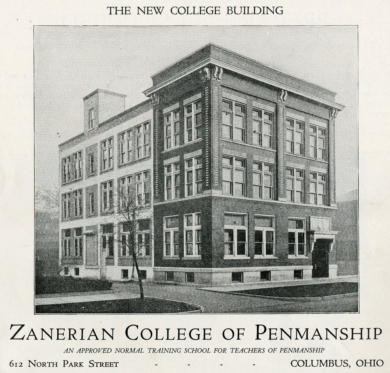 Zanerian College of Penmanship